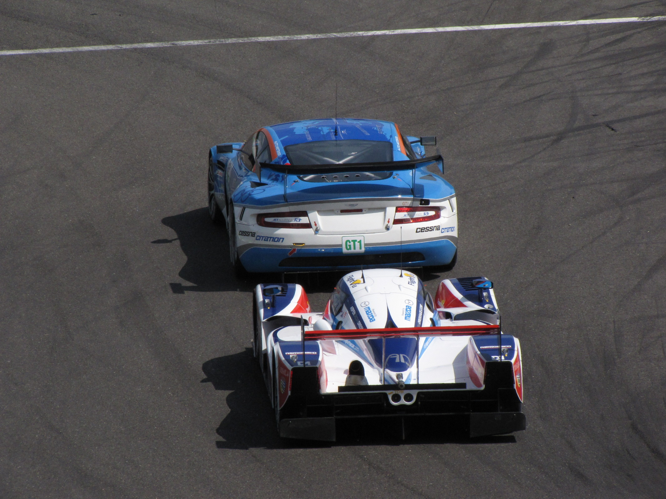 Lukas Lichter-Hoyer in a Aston Martin DBR9 of JetAlliance leading a Thomas Erdos in a LMP2 Lola of RML at the 1000 km Spa in 2009.